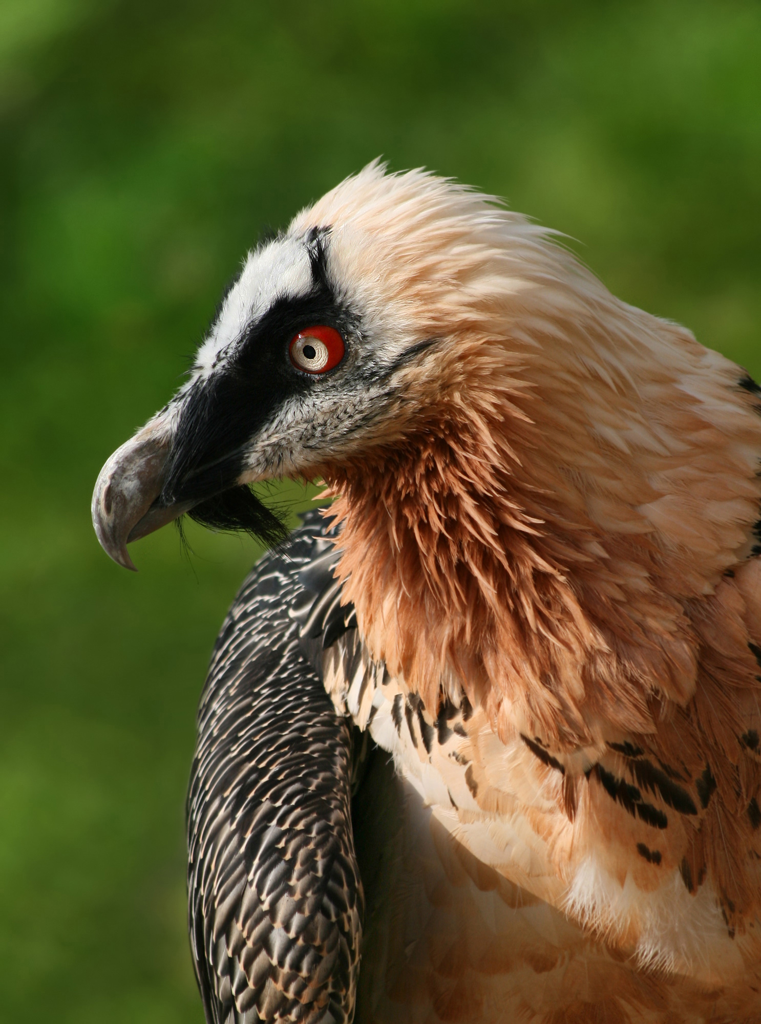 Description: The Lammergeier or Bearded Vulture, Gypaetus barbatus, is an Old World vulture, the only member of the genus Gypaetus. Alpenzoo, Innsbruck, Austria.